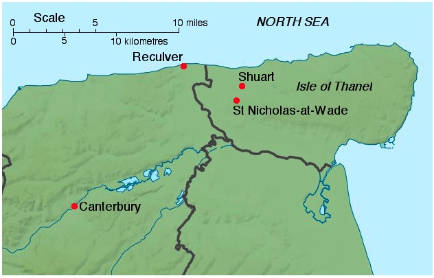 Map of north-east Kent, showing the relative locations of Canterbury, Reculver, St Nicholas-at-Wade and Shuart, adapted from File:Kent UK relief location map.jpg